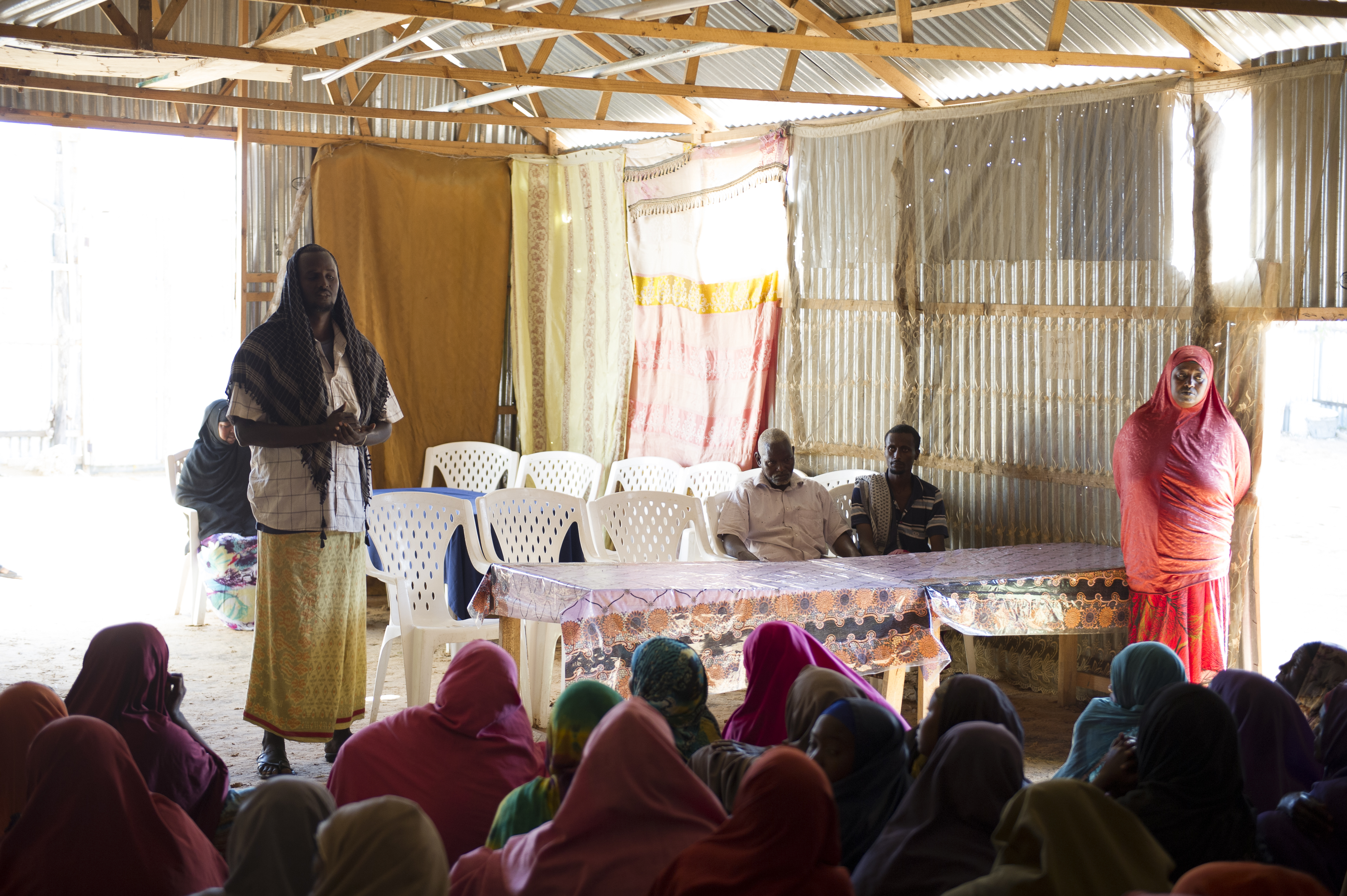 Imam Macalin Aden Mohamed Isman conducting an FGM awareness session to women at Walalah Biylooley camp. The Imam campaigns against FGM and teaches that it is a pagan practice that Somali muslims should not engage in. AU UN IST PHOTO / David Mutua